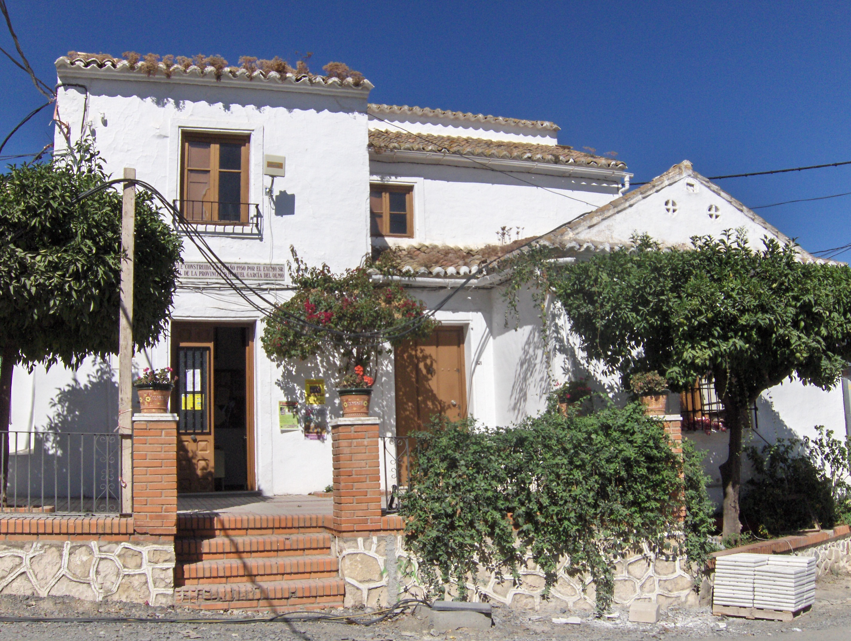 Former school in Colmenar